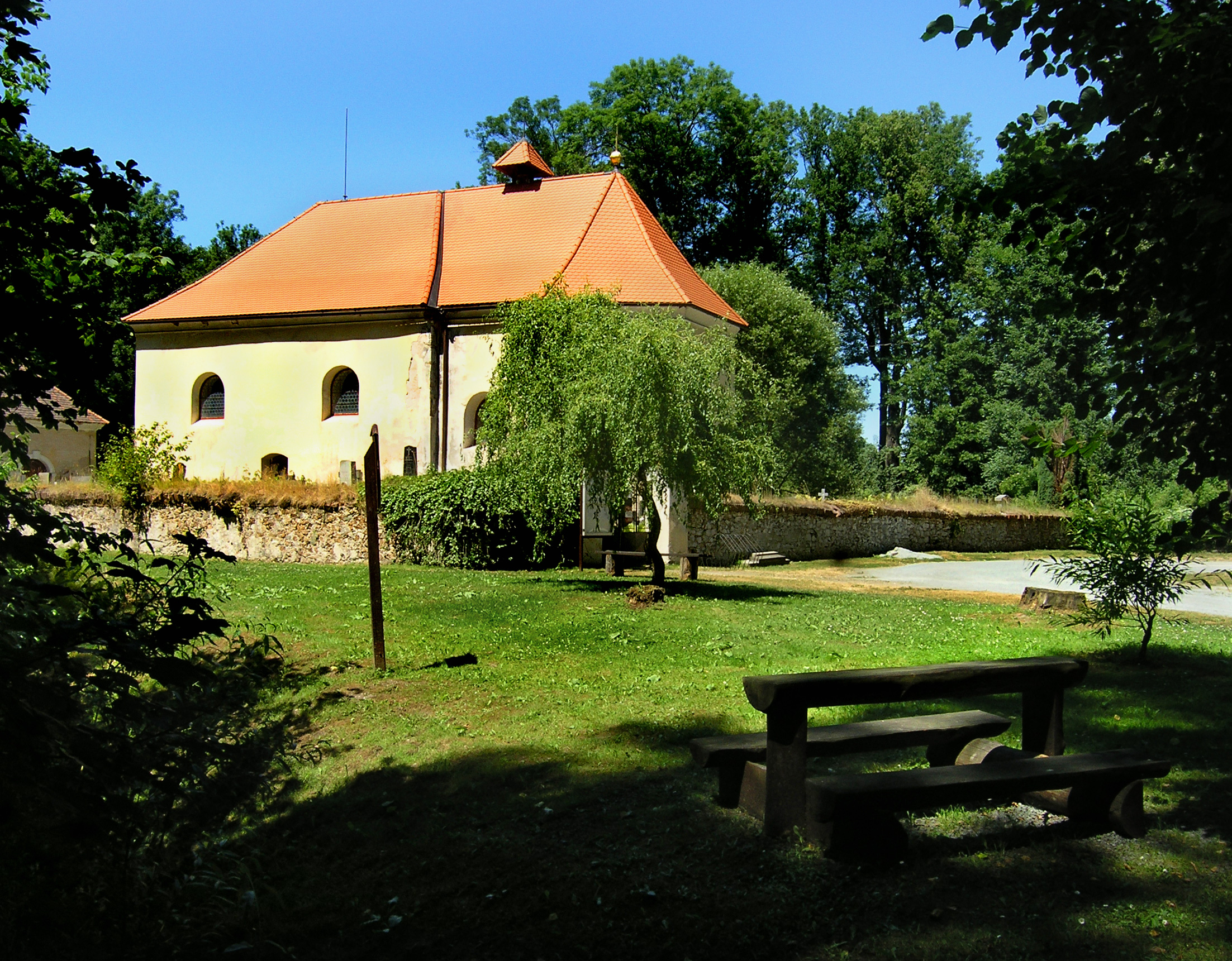 Church in Valy, Czech Republic